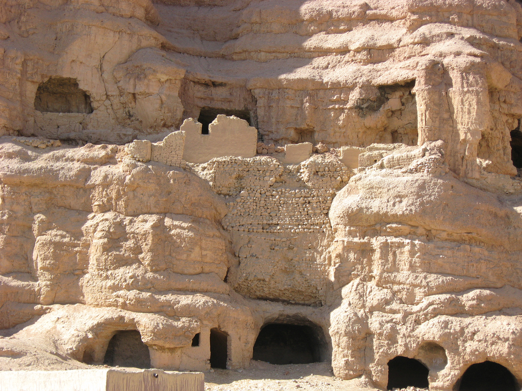 Thousands of caves are all over the mountainside. With linking tunnels and stairways that lead into temples carved out inside of the mountain.